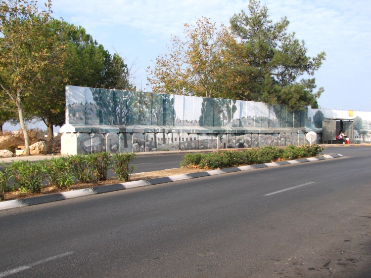 Security barrier erected in Gilo to protect residents from Beit Jalla snipers